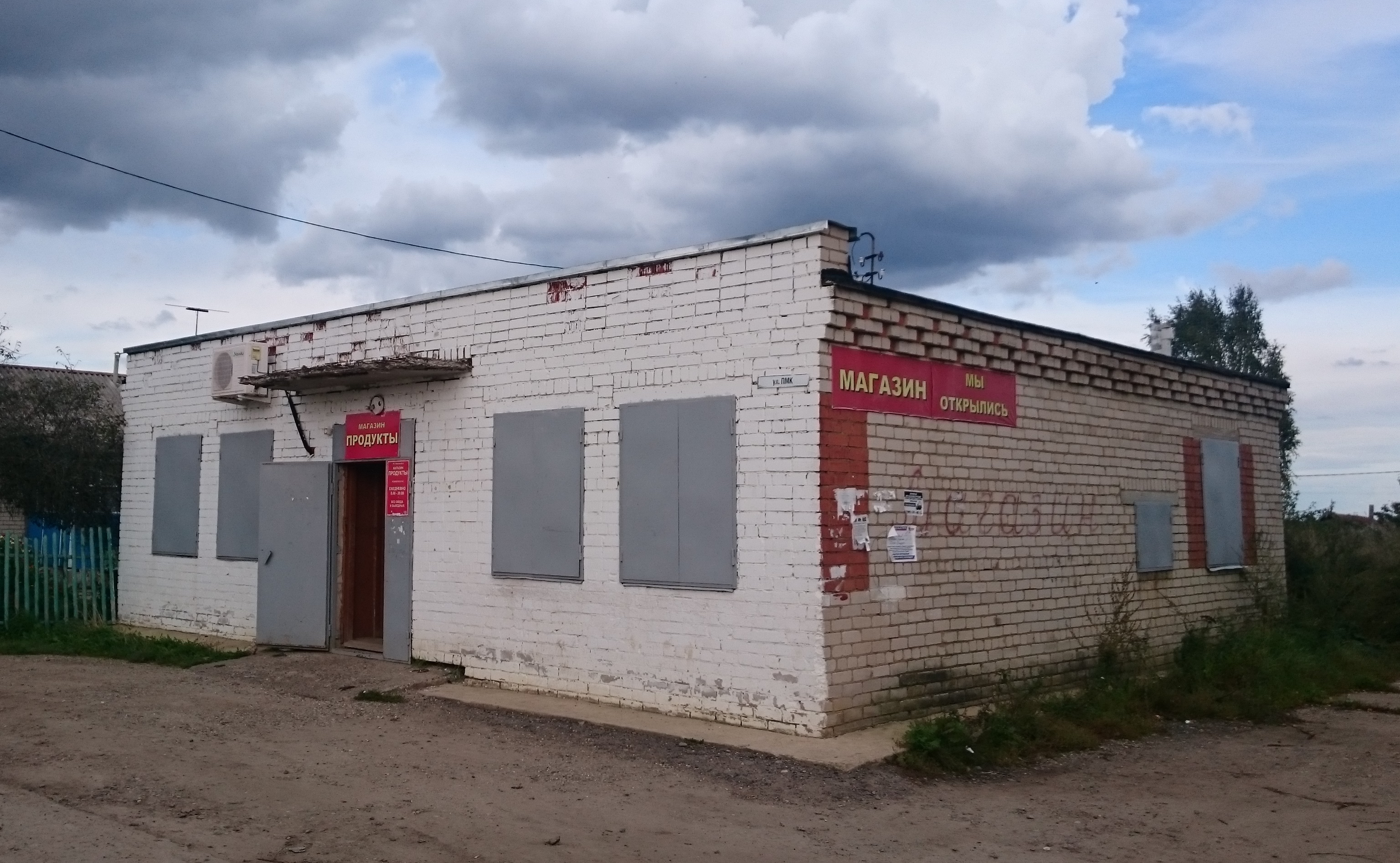 A local store in Kadnikovo, Yaroslavl Oblast, Russia